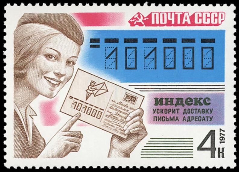 Stamp of the Soviet Union, 1977, CPA 4775. Letter and a postal code sample on an envelope.